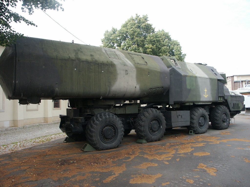 soviet-built anti-ship-missile launcher for coastal defense. It is based on MAZ-543 truck.